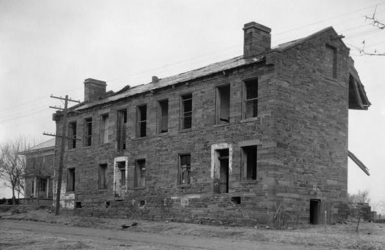 Fort Gibson, Barracks Building, Garrison Avenue, Fort Gibson (Muskogee County, Oklahoma) (cropped)